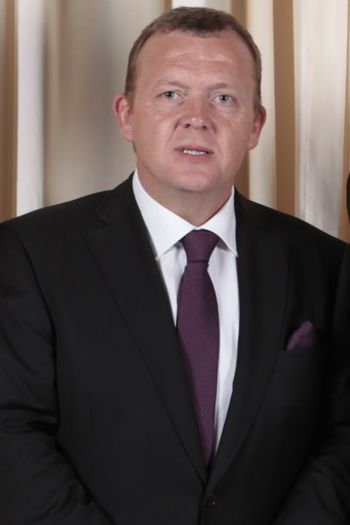 Lars Lokke Rasmussen